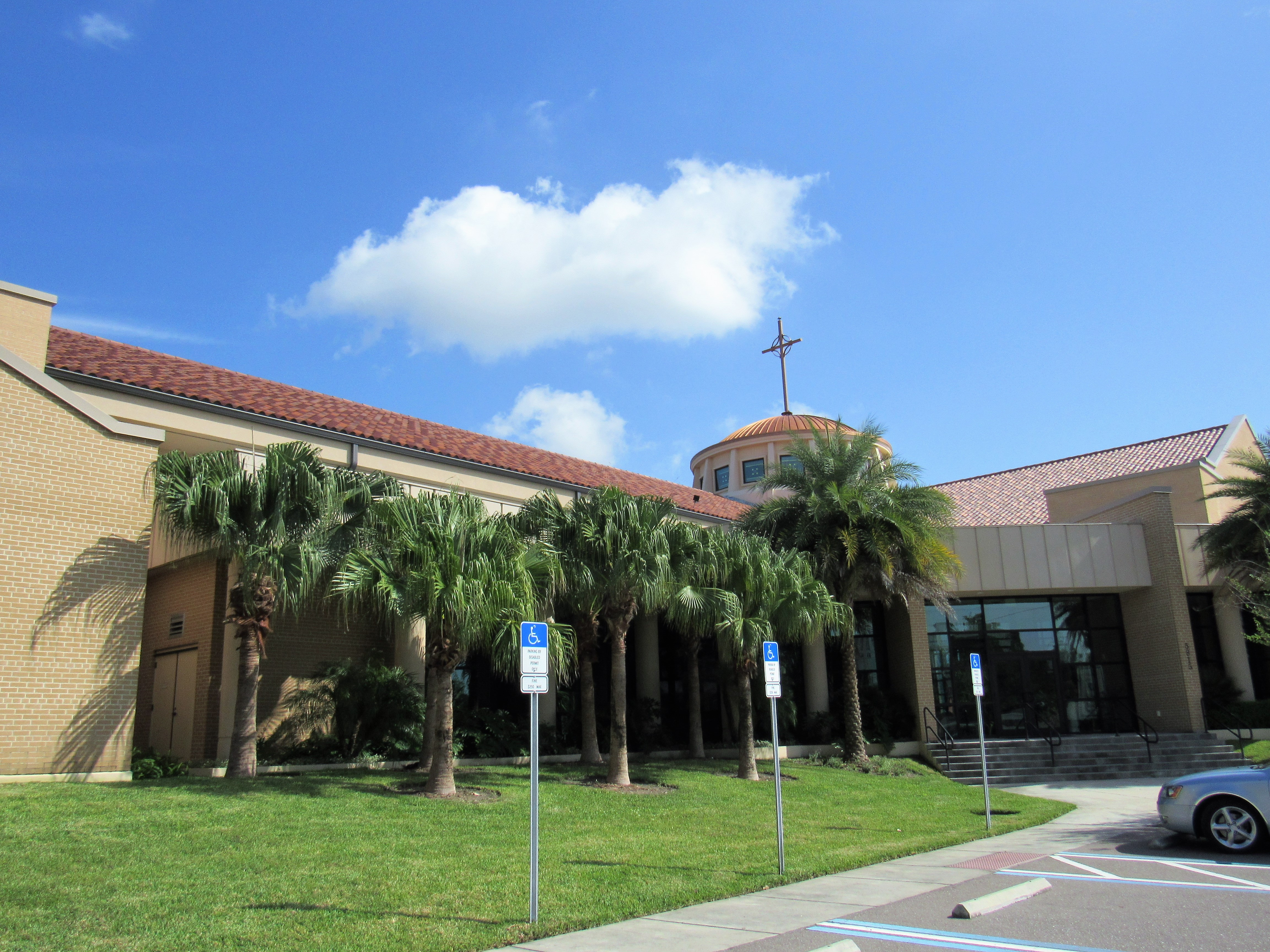 St. Jude the Apostle Cathedral in St. Petersburg, Florida.